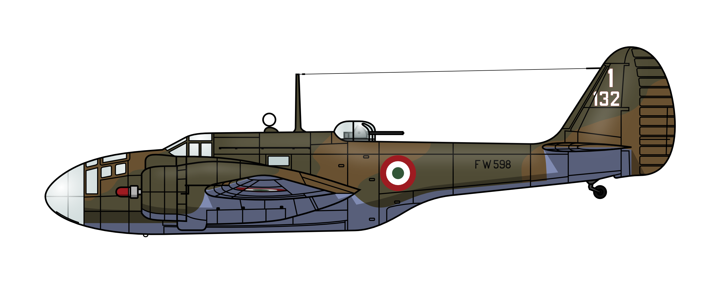 Profile of Giulio Cesare Graziani's Martin Baltimore Mk V attack bomber.